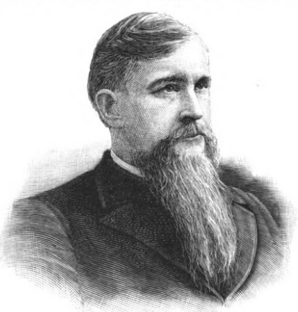 Joseph B. Cheadle (Indiana Congressman)